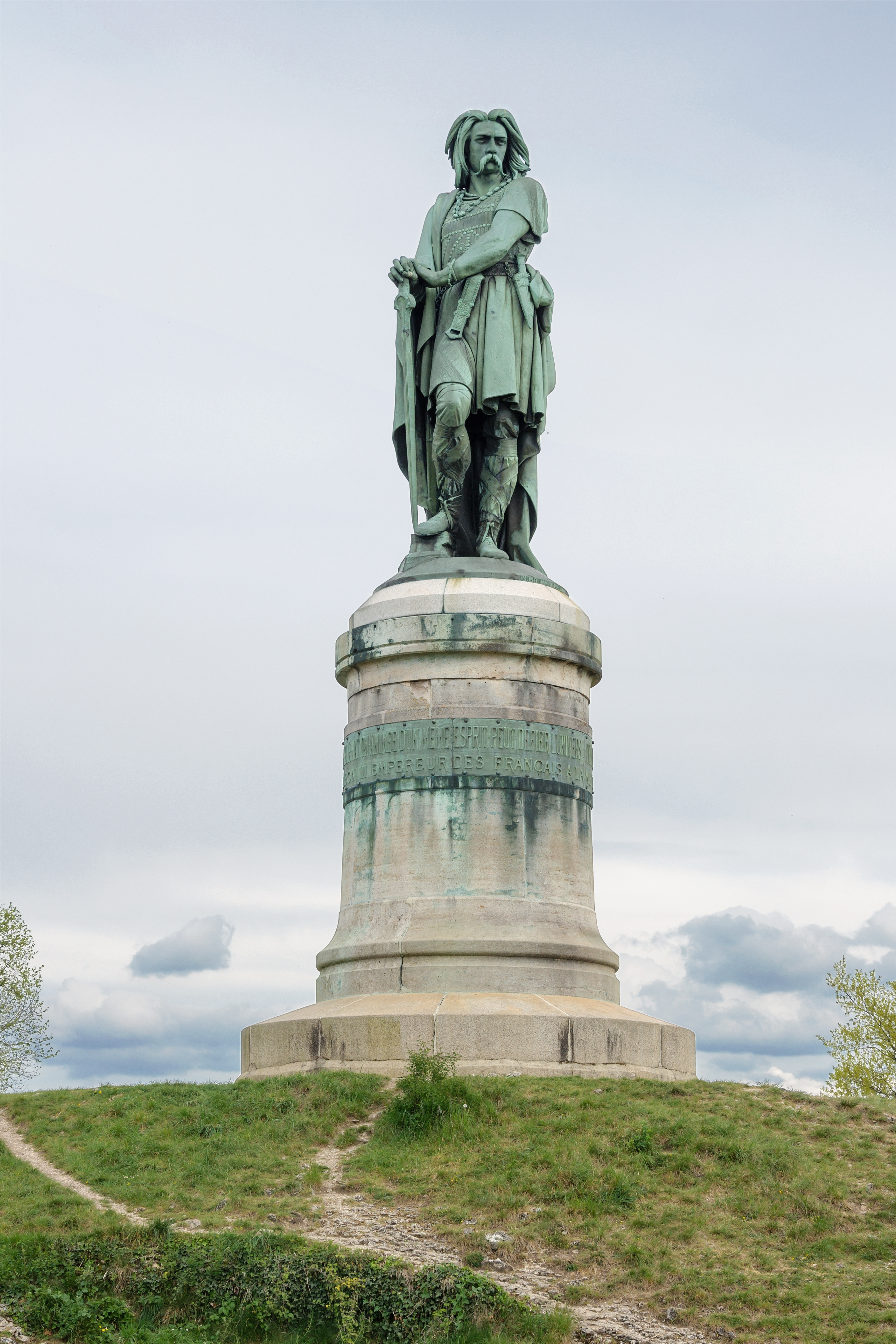 Vercingetorix, monumental statue by Aimé Millet in Alise-Sainte-Reine, Côte-d'Or department, Burgundy, France. .